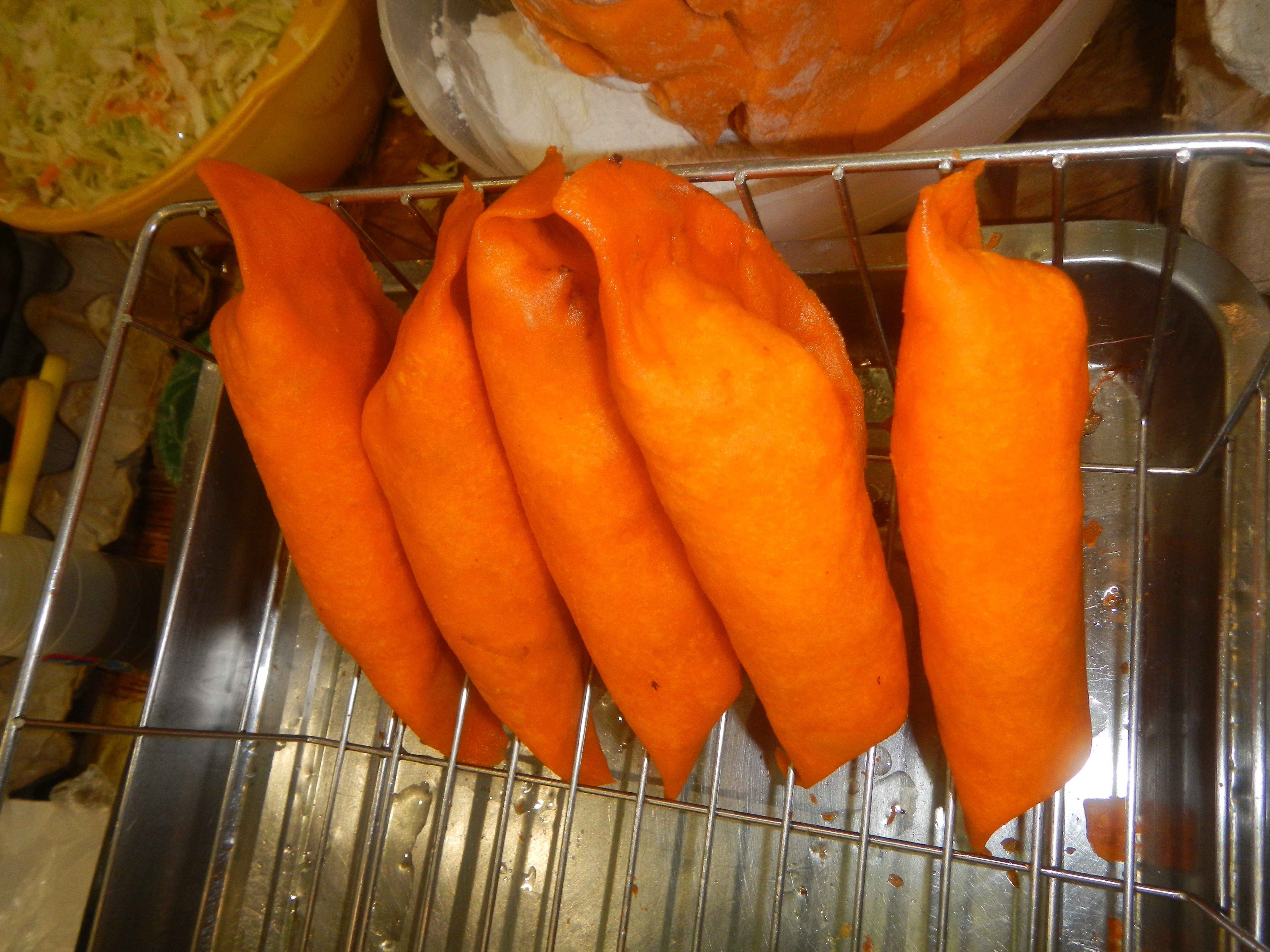 SM Hypermarket Street Food Festival SM City Baliuag SM Hypermarket in Barangay Pagala 14°58'14"N 120°53'26"E Baliuag, Bulacan, Bulacan province (Note: Judge Florentino Floro, the owner, to repeat, Donor Florentino Floro of all these photos hereby donate gratuitously, freely and unconditionally all these photos to and for Wikimedia Commons, exclusively, for public use of the public domain, and again without any condition whatsoever).